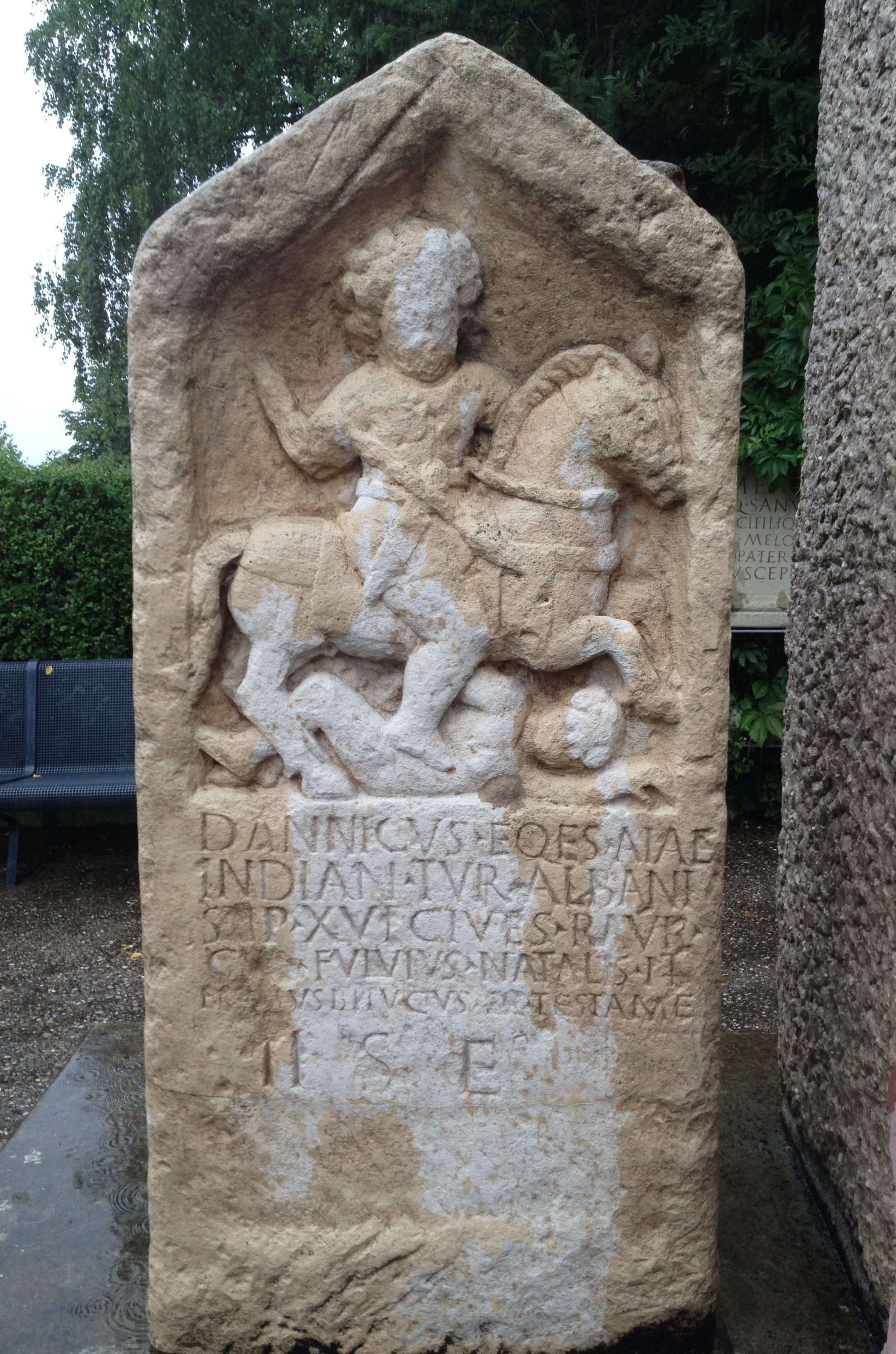 Lapidarium at Augusta Raurica - August 2013